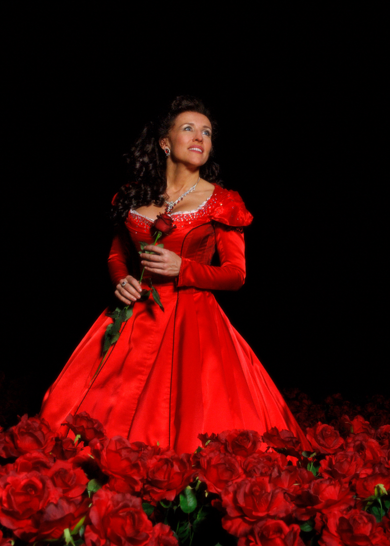 Photo of the performer Janet Marie Chvatal during rehearsal for the german production of the Musical "Ludwig2".